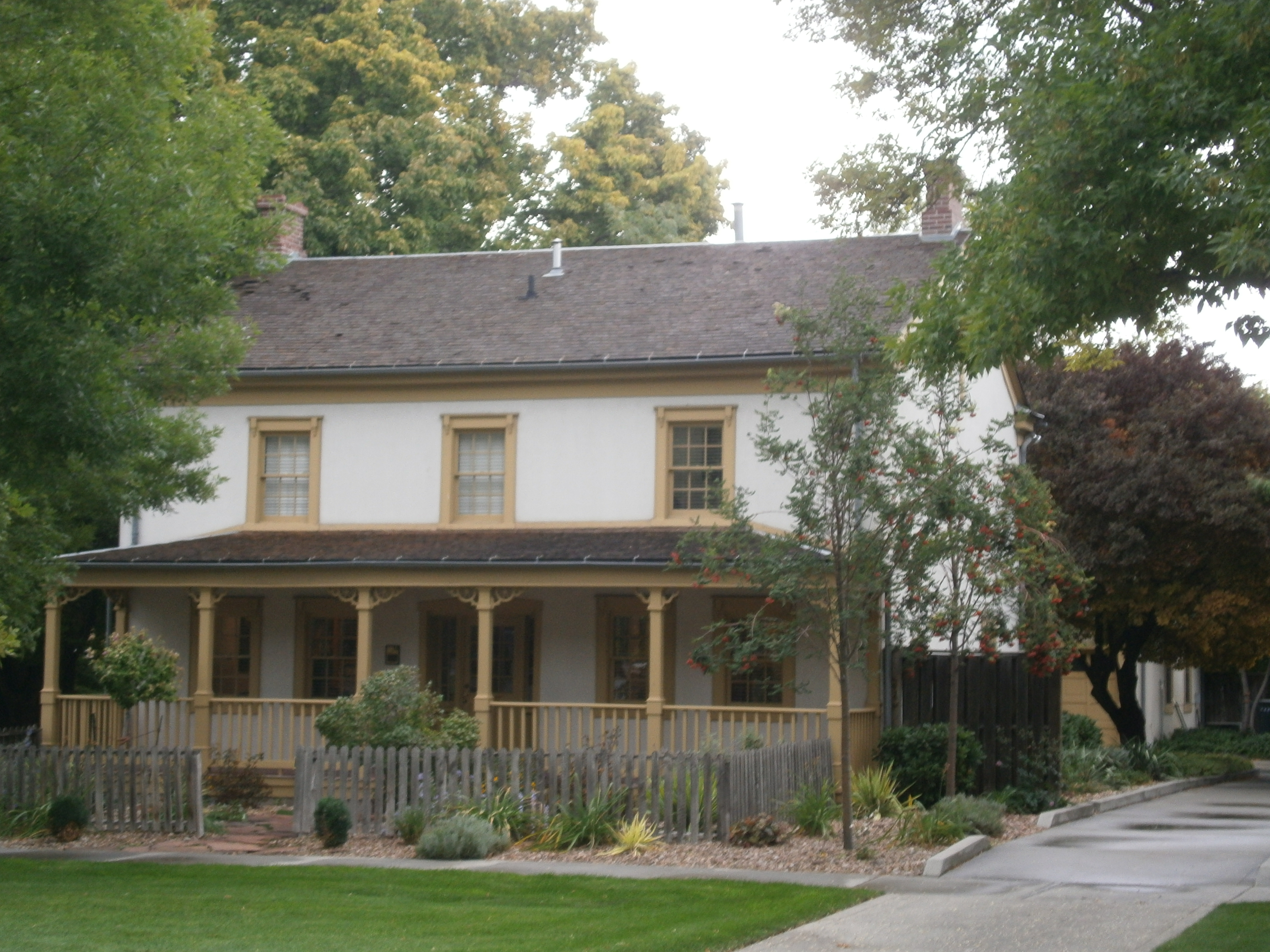 The Nelson Wheeler Whipple House, a historic home in Salt Lake City, Utah, United States.